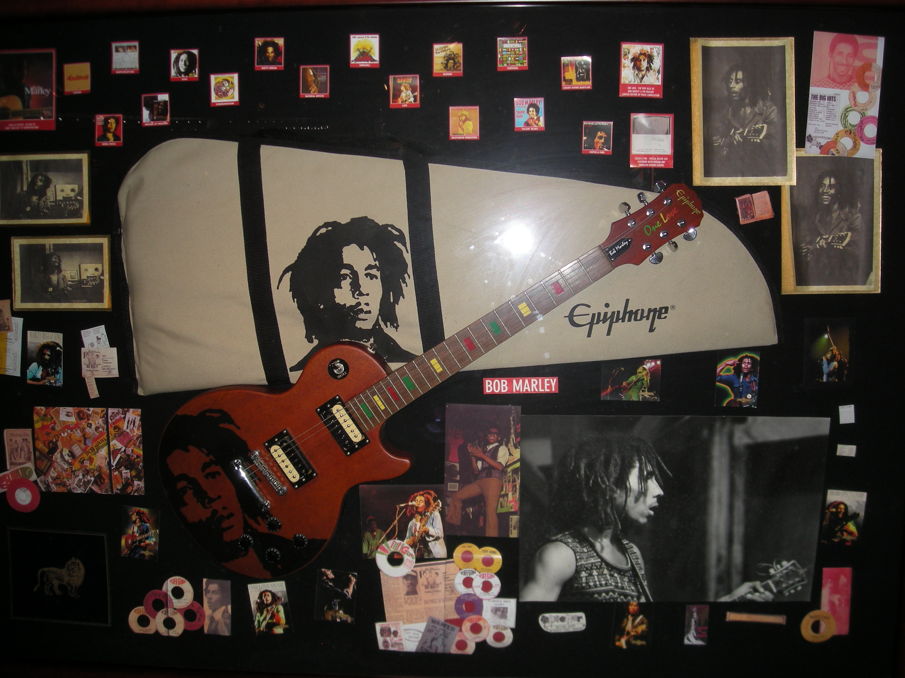 Bob Marley Epiphone guitar at his birthplace in Nine Mile, Jamaica